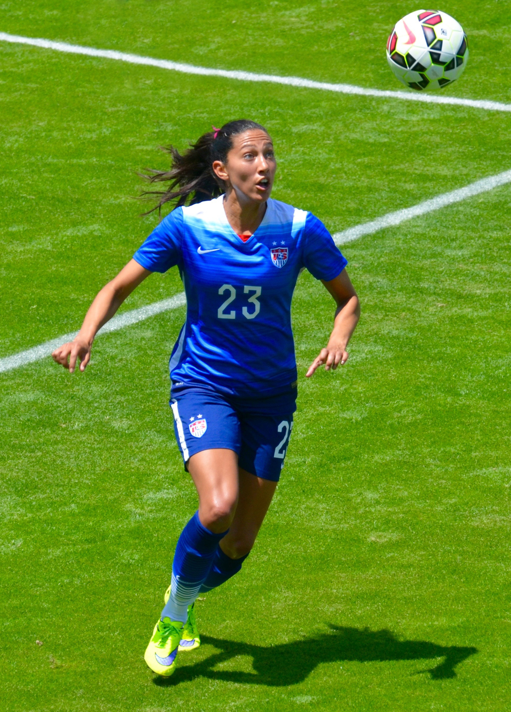 Christen Press playing for the USWNT in San Jose, California on 10 May 2015; looking up, concentrating on a ball she is about to trap.